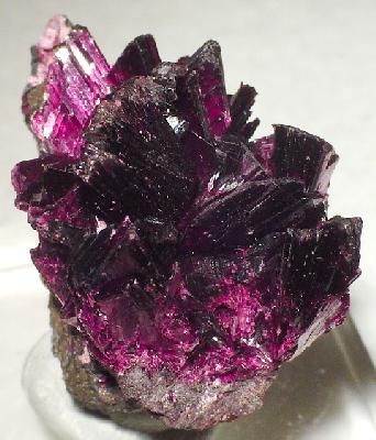 Erythrite Locality: Bou Azzer District, Tazenakht, Ouarzazate Province, Souss-Massa-Draâ Region, Morocco (Locality at ) Electrically bright and lustrous, deep red to magenta erythrite blades on matrix from the 1986 find at Bou Azzer. These crystals are somewhat thicker and stockier than those from the recent finds (which have now dried up anyways). This is just a gorgeous, extremely colorful specimen! 4.3 x 3.5 x 2.9 cm